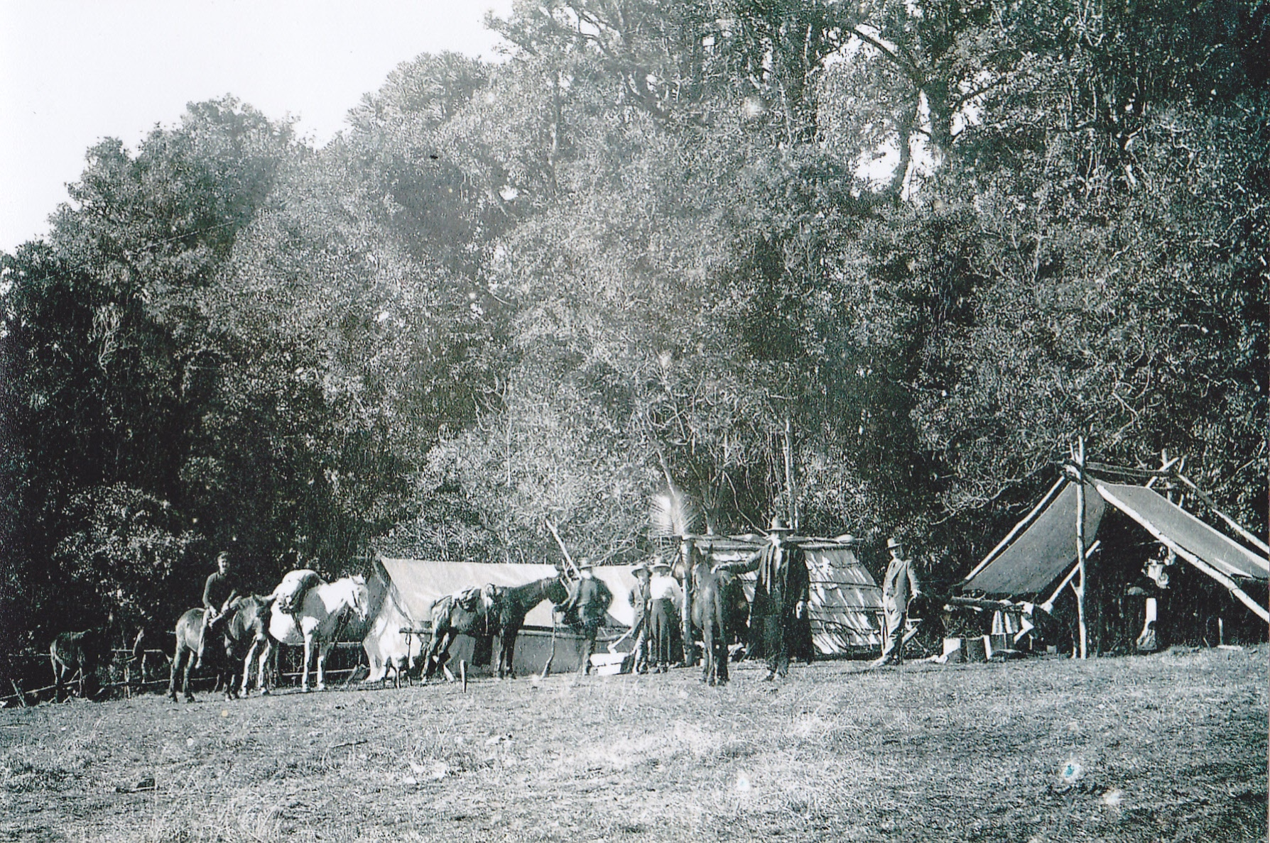 ?Mrs Munro in front of central tent